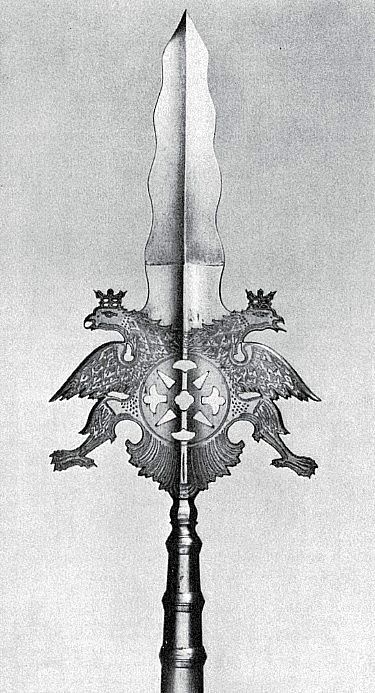 polearm "partisan" with double eagle as "ears", starlike open-worked escutcheon with a broad, double-edged, mottled push-blade